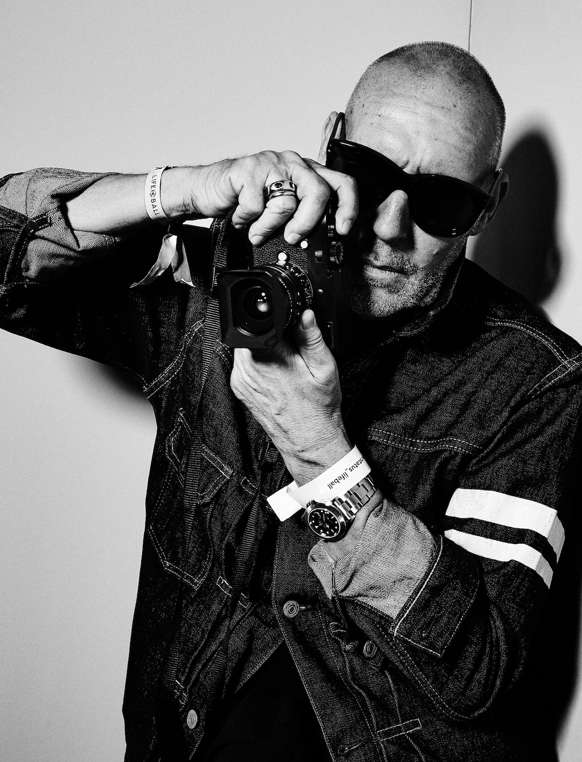 Michel Comte in 2017 at Life Ball in Vienna, Austria.